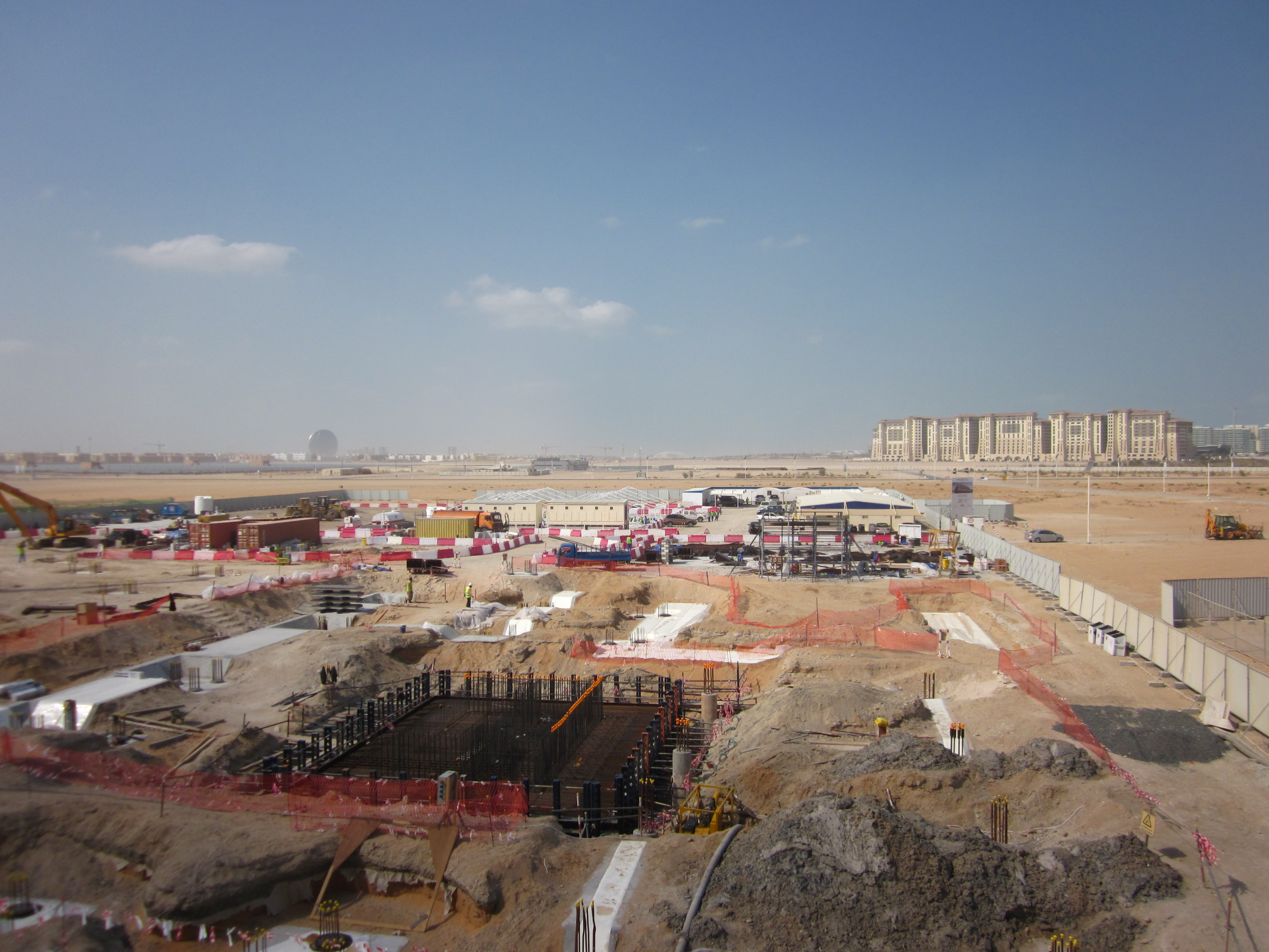 Masdar City under construction in January 2012. Abu Dhabi, United Arab Emirates